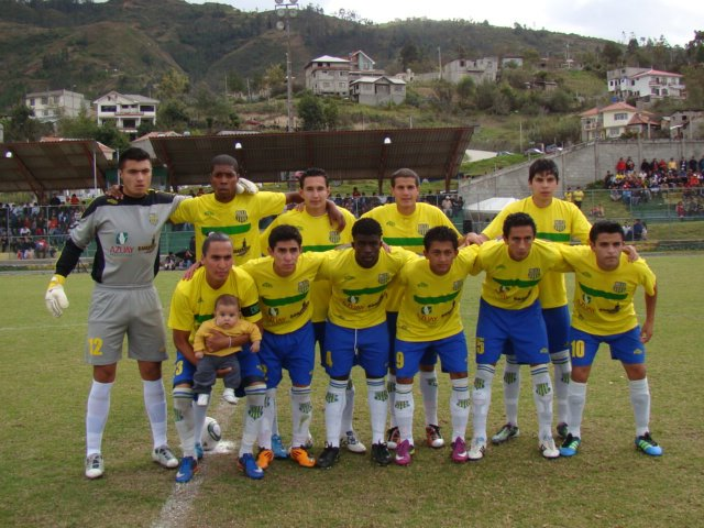 The association football team Gualaceo Sporting Club from Ecuador.